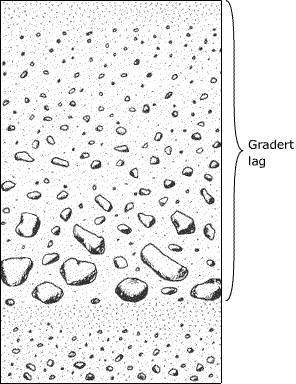 Graded bedding